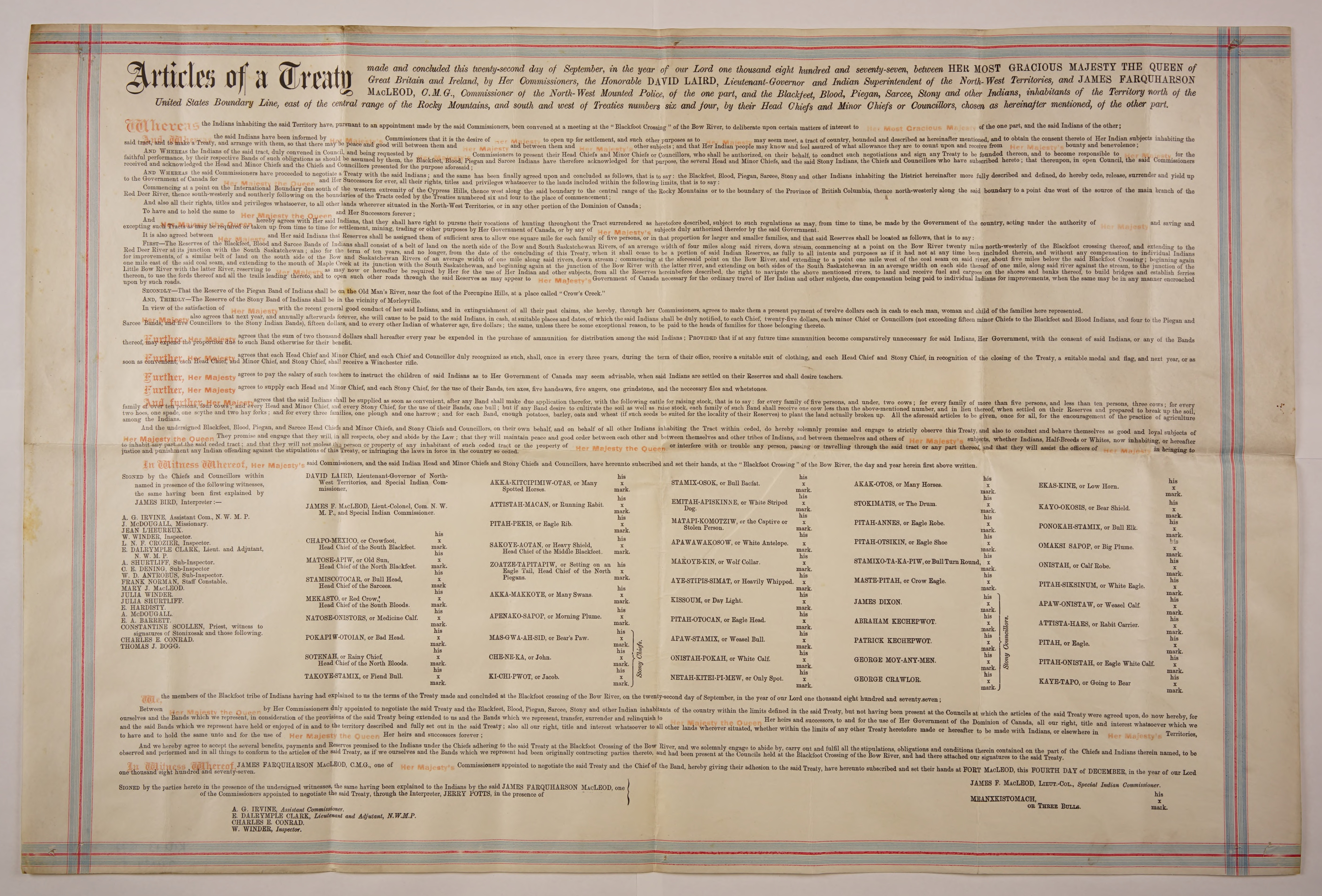 Articles of a treaty made and concluded this twenty-second day of September, in the year of our Lord one thousand eight hundred and seventy-seven, between Her Most Gracious Majesty the Queen of Great Britain and Ireland, by Her Commissioners, the Honorable David Laird, Lieutenant-Governor and Indian Superintendent of the North-West Territories, and James Farquharson MacLeod, C.M.G., commissioner of the North-West Mounted Police, of the one part, and the Blackfeet, Blood, Peigan, Sarcee, Stony and other Indians, inhabitants of the Territory north of the United States Boundary Line, east of the central range of the Rocky Mountains, and south and west of Treaties numbers six and four, by their Head Chiefs and Minor Chiefs or Councillors, chosen as hereinafter mentioned, of the other part. Signed: At the "Blackfoot Crossing" of the Bow River, the day and year herein first above written; at Fort MacLeod, this fourth day of December, in the year of our Lord one thousand eight hundred and seventy-seven. Presentation copy of the original, 1 sheet; 50 x 72 cm Printed on parchment. Text in black and red; blue and red border Date: 1877 Other versions: University of Alberta Bruce Peel Special Collections call number: KID 13 1877 folio